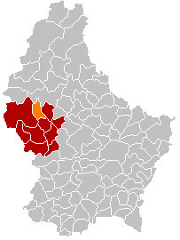 Own edit of Kanton RedangeLocatie.png